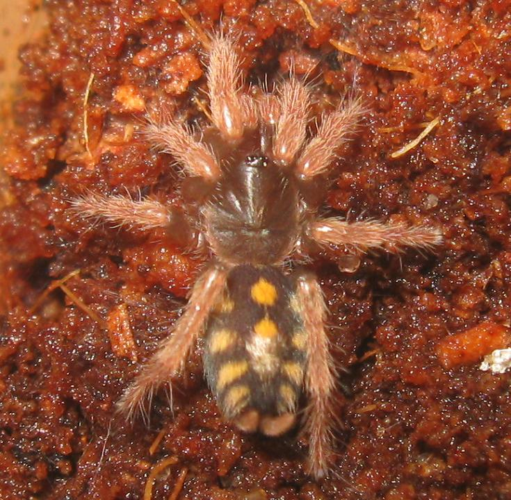 1 molted Hapalopus triseriatus.